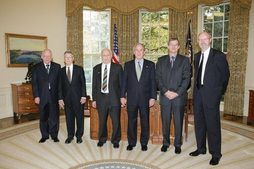 President George W. Bush meets with the 2005 Nobel Prize recipients, Tuesday, Nov. 8, 2005 in the Oval Office at the White House. From left to right are Dr. John Hall, 2005 Nobel Prize in Physics; Dr. Thomas C. Schelling, 2005 Nobel Prize in Economic Sciences; Dr. Roy J. Glauber, 2005 Nobel Prize in Physics; Dr. Richard R. Schrock and Dr. Robert H. Grubbs, 2005 Nobel Prize winners in Chemistry. White House photo by Paul Morse